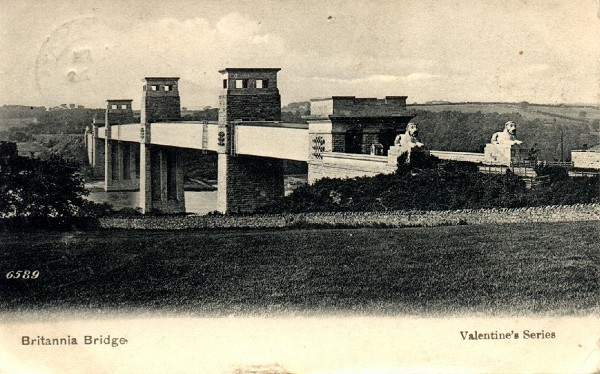 The old Britannia Bridge on a postcard from the private collection of Jochem Hollestelle